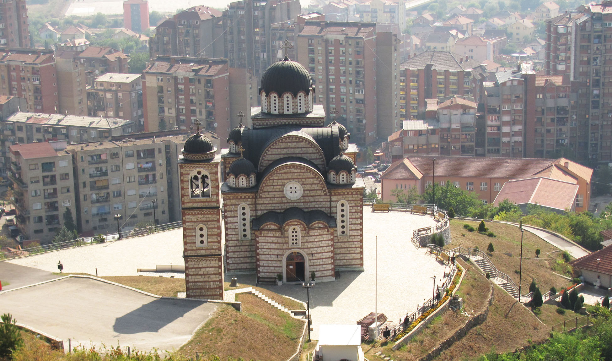 Church in northern part of Kosovska Mitrovica, Kosovo.